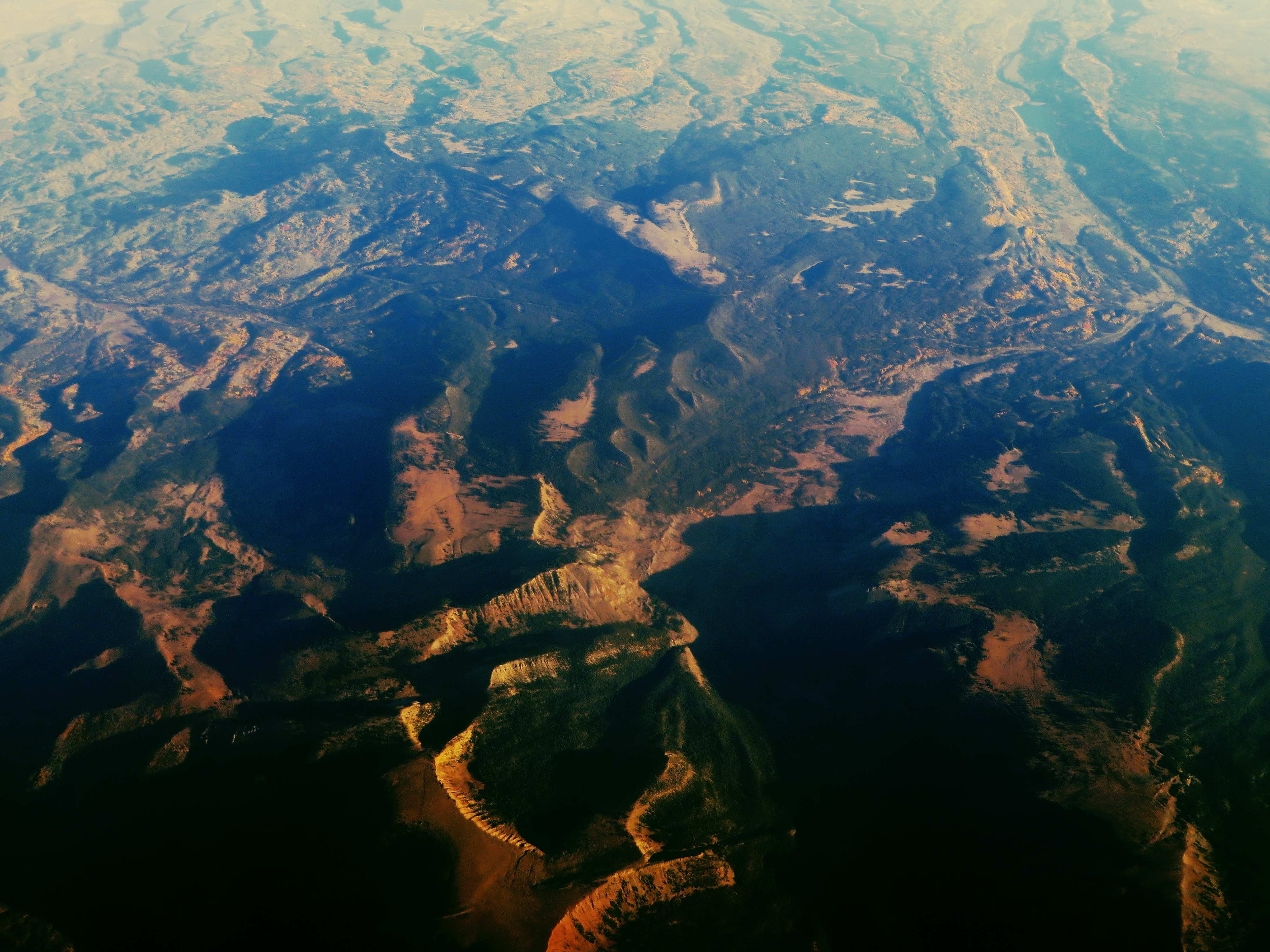 The Uinta Mountains are an east-west trending chain of mountains in northeastern Utah extending slightly into southern Wyoming in the United States. As a subrange of the Rocky Mountains, they are unusual for being the highest range in the contiguous United States running east to west, and lie approximately 100 miles (160 km) east of Salt Lake City. The range has peaks ranging from 11,000–13,528 feet (3,353–4,123 m), with the highest point being Kings Peak, also the highest point in Utah. The Mirror Lake Highway crosses the western half of the Uintas on its way to Wyoming. The south and east sides of the range are largely within the Colorado River watershed, including the Blacks Fork and the Duchesne River, which are tributaries of the Green River. The Green is the major tributary of the Colorado River and flows in a tight arc around the eastern side of the range. (Indeed John Wesley Powell said the Green was the "master stream" where it and the Colorado came together.) The Bear and Weber rivers, the two largest tributaries of Great Salt Lake, are born on the west slope of the range. The Provo River, the largest tributary to Utah Lake, begins on the southern side of the range and flows west to Utah Lake, which itself drains via the Jordan River into Great Salt Lake. The Uinta Mountains are part of the Wasatch and Uinta montane forests ecoregion. Nearly the entire range lies within Wasatch-Cache National Forest (on the north and west) and Ashley National Forest (on the south and east). The highest peaks of the range are protected as part of the High Uintas Wilderness. The forests contain many species of trees, including lodgepole pine, subalpine fir, Engelmann Spruce, Douglas-fir, and Quaking aspen. There are also many species of grasses, shrubs, and forbs growing in the Uinta Mountains.